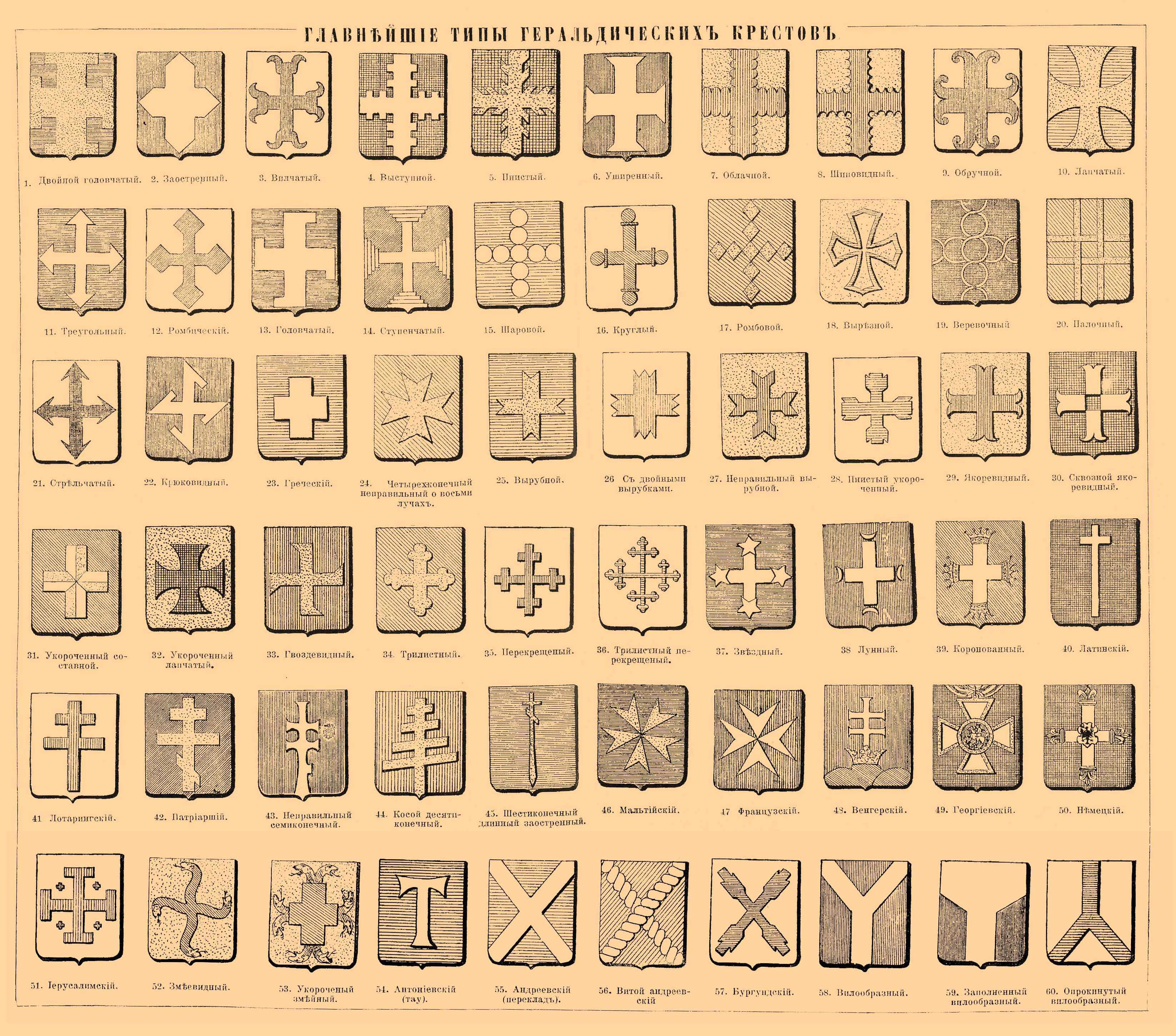 Illustration from Brockhaus and Efron Encyclopedic Dictionary (1890—1907)